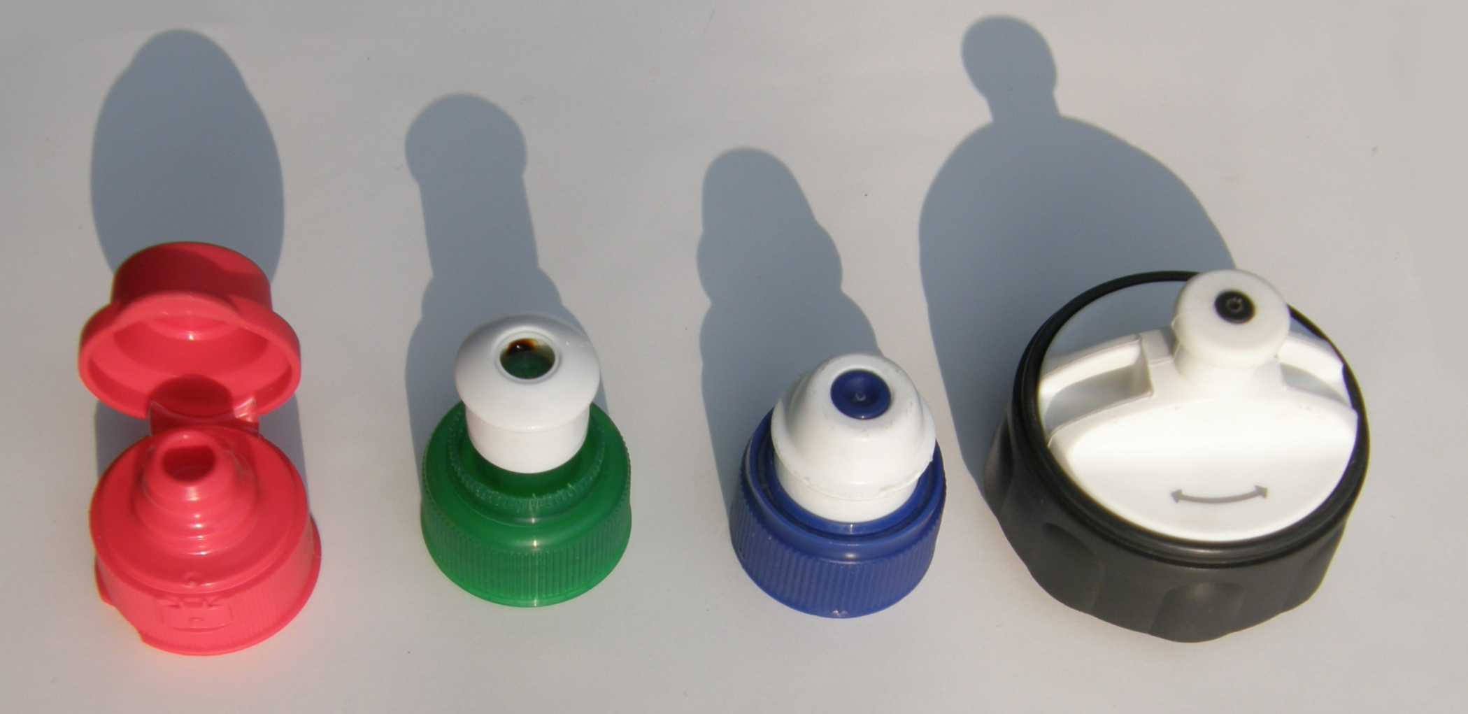 srewcaps